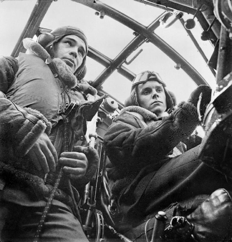 IWM caption : Pilot and co-pilot in the cockpit of their No 149 Squadron Wellington bomber, probably at RAF Mildenhall in 1941. The pilot is David Donaldson, who was promoted to Wing Commander in 1943 at the age of 28. In order to make a better composition, Beaton transposed the pilot and co-pilot. David Donaldson was indeed the pilot but is shown next to what would normally be his seat and not in it.